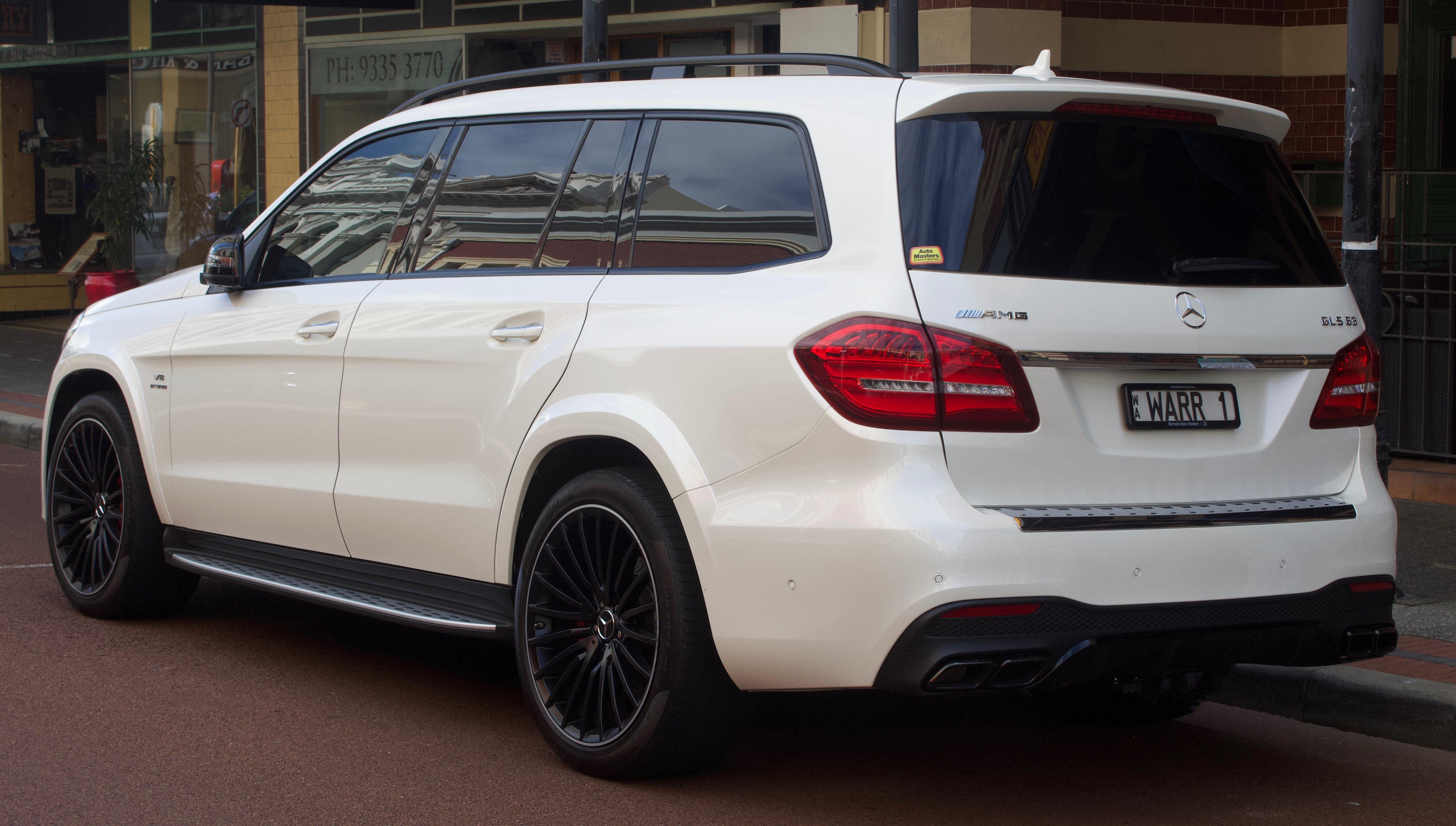 2017 Mercedes-Benz GLS 63 AMG (X 166) wagon. Photographed in Fremantle, Western Australia, Australia.